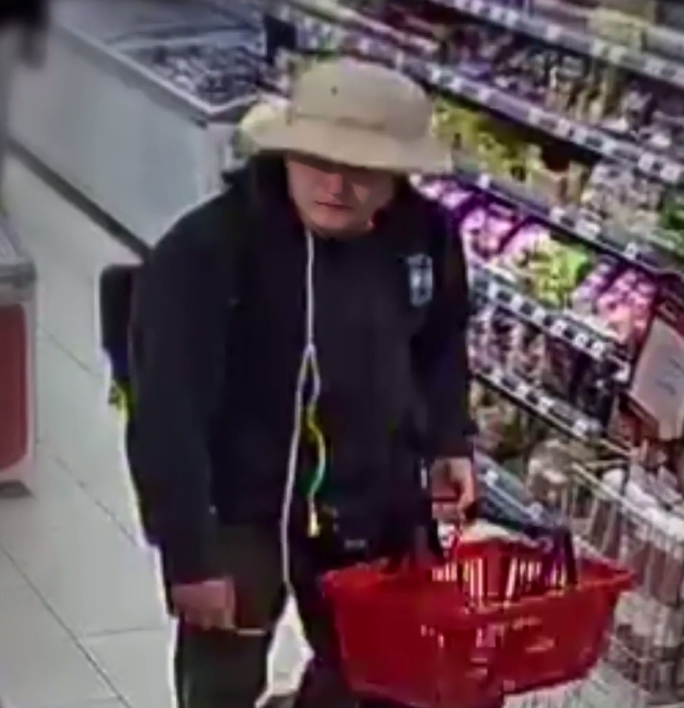 The perpetrator of the Budapest bombing